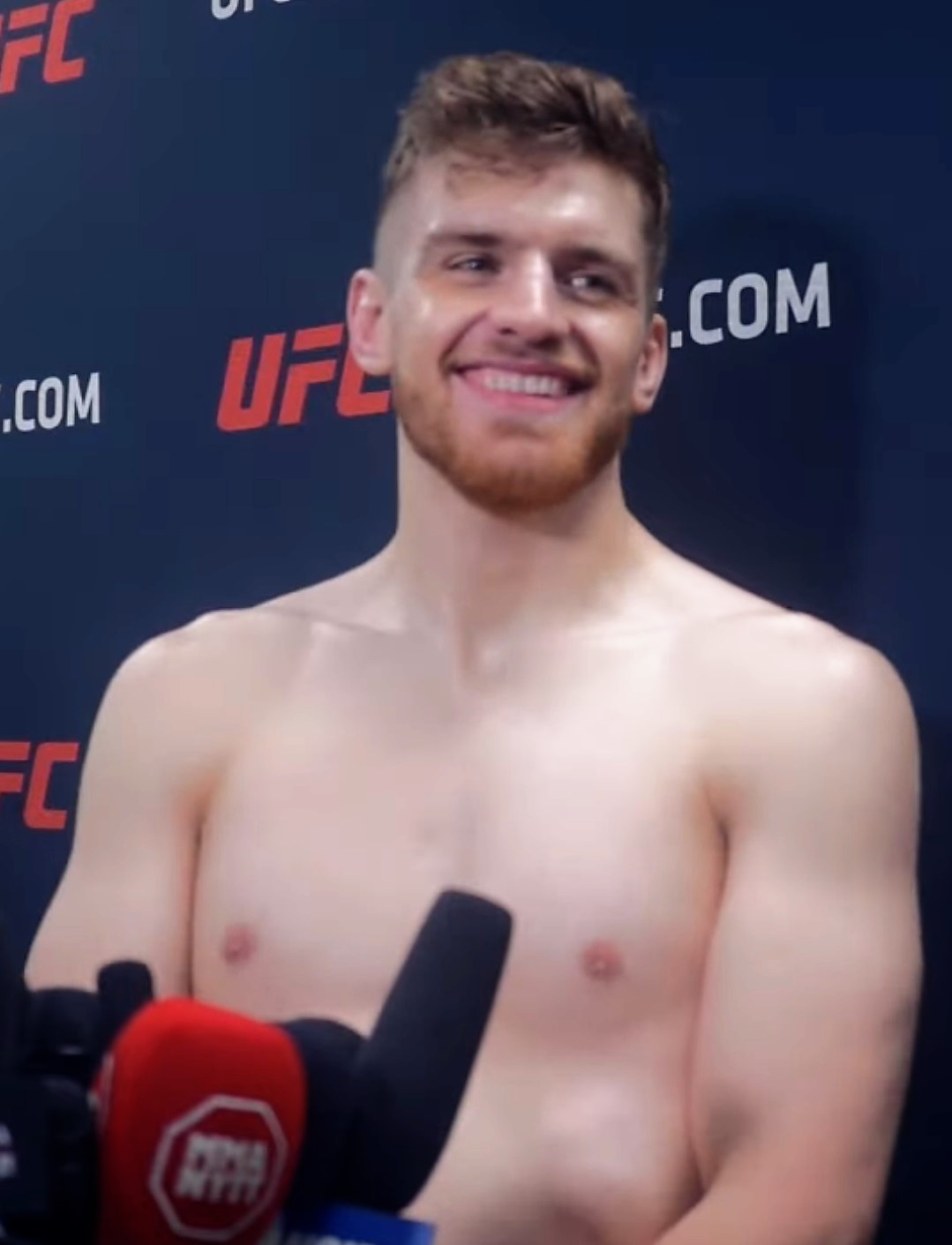 Edmen Shahbazyan: I think I match up well with Israel Adesanya | UFC 244 UFC244 #EdmenShahbazyan #israeladesanya Middleweight phenom Edmen Shahbazyan extended his win streak to four straight in the UFC after a vicious knockout over veteran Brad Tavares. After he spoke with the MMA media about his big win, his Armenian support, and the middleweight champion Israel Adesanya. Visit Europe's biggest MMA website Follow us on our Social Media channels: Facebook: Instagram: Twitter